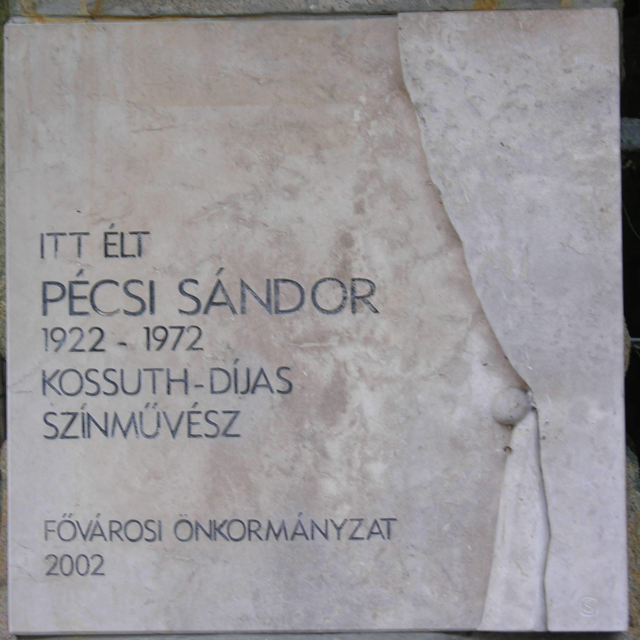 Commemorative plaque of the actor Sándor Pécsi in Budapest District II, Cserje Street No 6